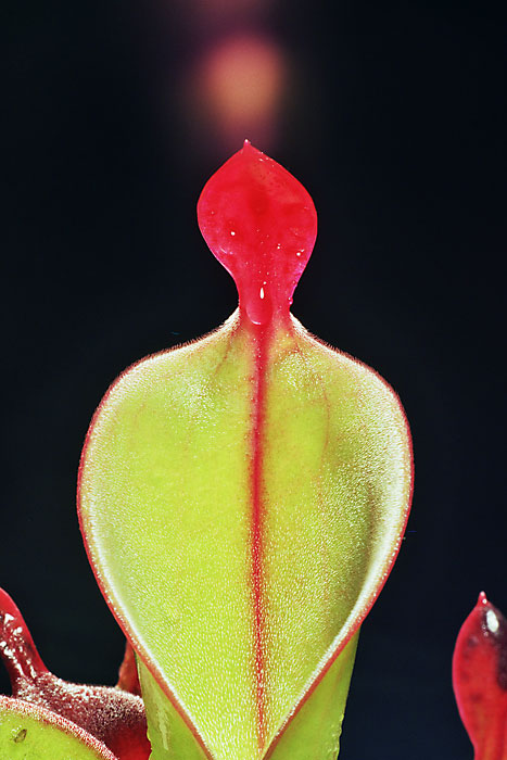 Heliamphora chimantensis